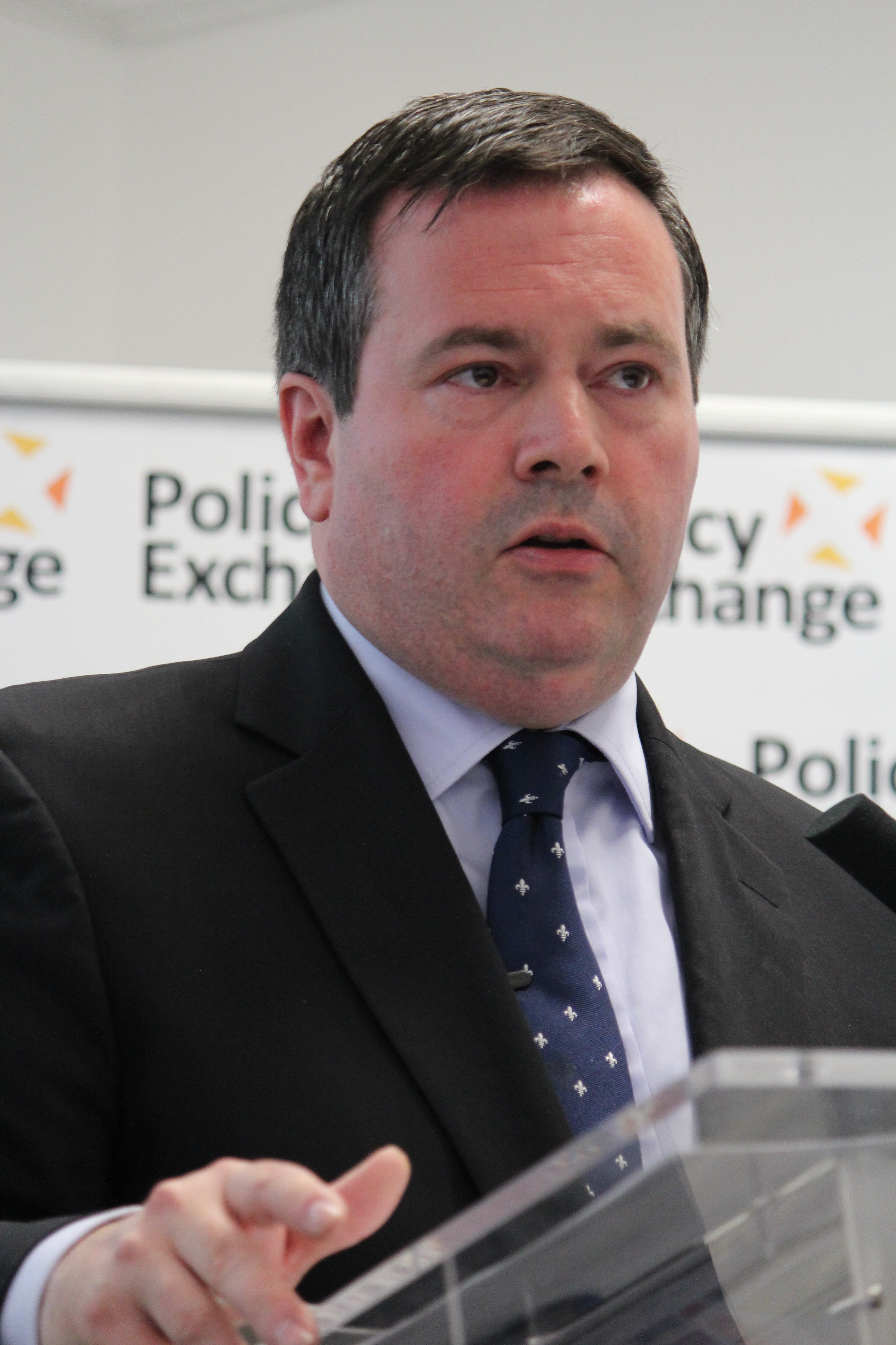 Hon Jason Kenney MP speaking at the awarding of the inaugural Disraeli Prize